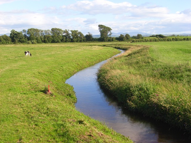 The River Waver, Abbeytown, near to Abbeytown, Cumbria, Great Britain. Looking upstream from New Bridge, a short distance above the river's tidal limit.